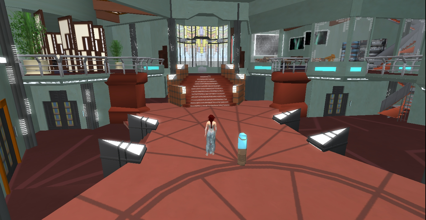 A view from the "gateroom" in Atlantis in Second Life. Behind the person is the stargate. This Atlantis is a replica of the real Atlantis from the tv-series Stargate Atlantis. Photographed 12 July, 2012.